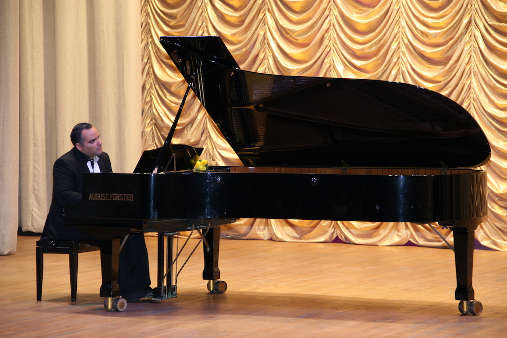 Johnny Hachem sitting behind a Piano in one of his performances.